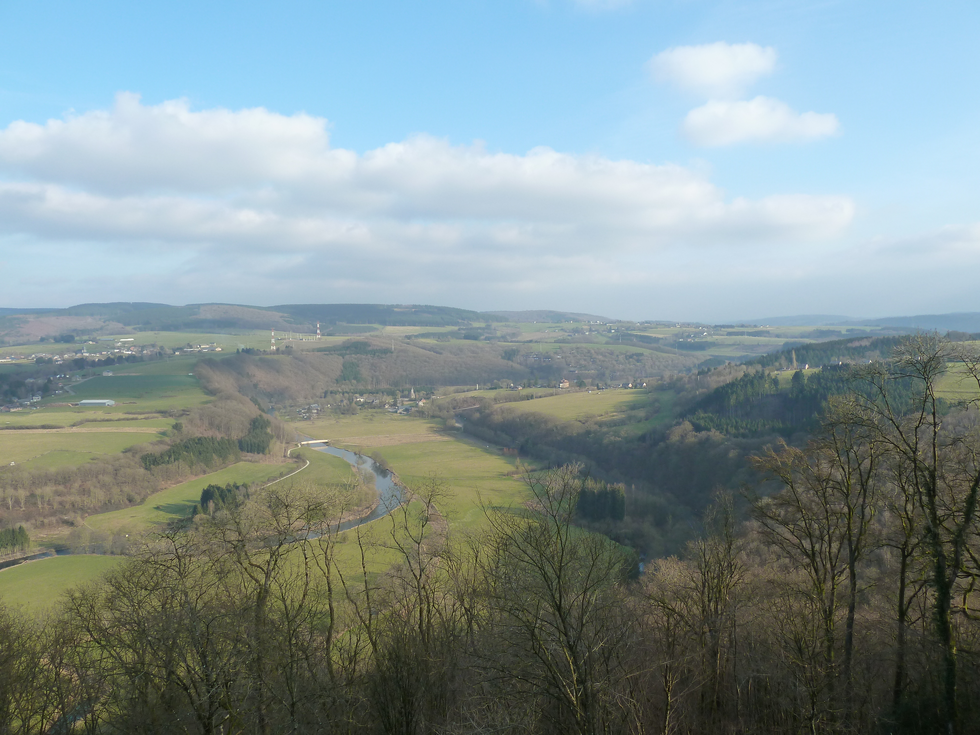 Hermitage and chapel of Saint-Thibaut, Marcourt, Rendeux, Belgium